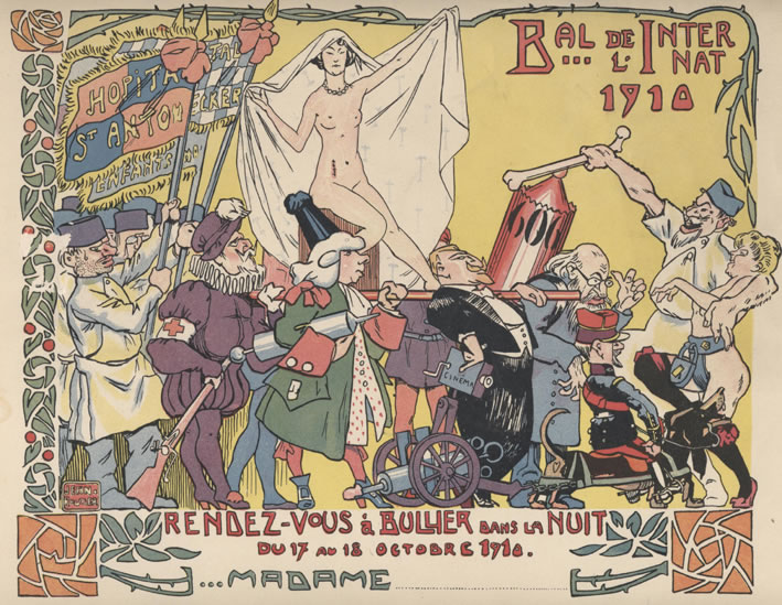 Invitation for ladies for the Internat Ball 1910 in Paris at the Bal Bullier.